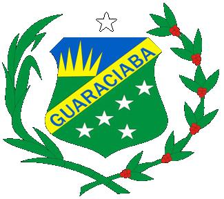 Coats of arms of Ceará's Guaraciaba do Norte city, Brazil.